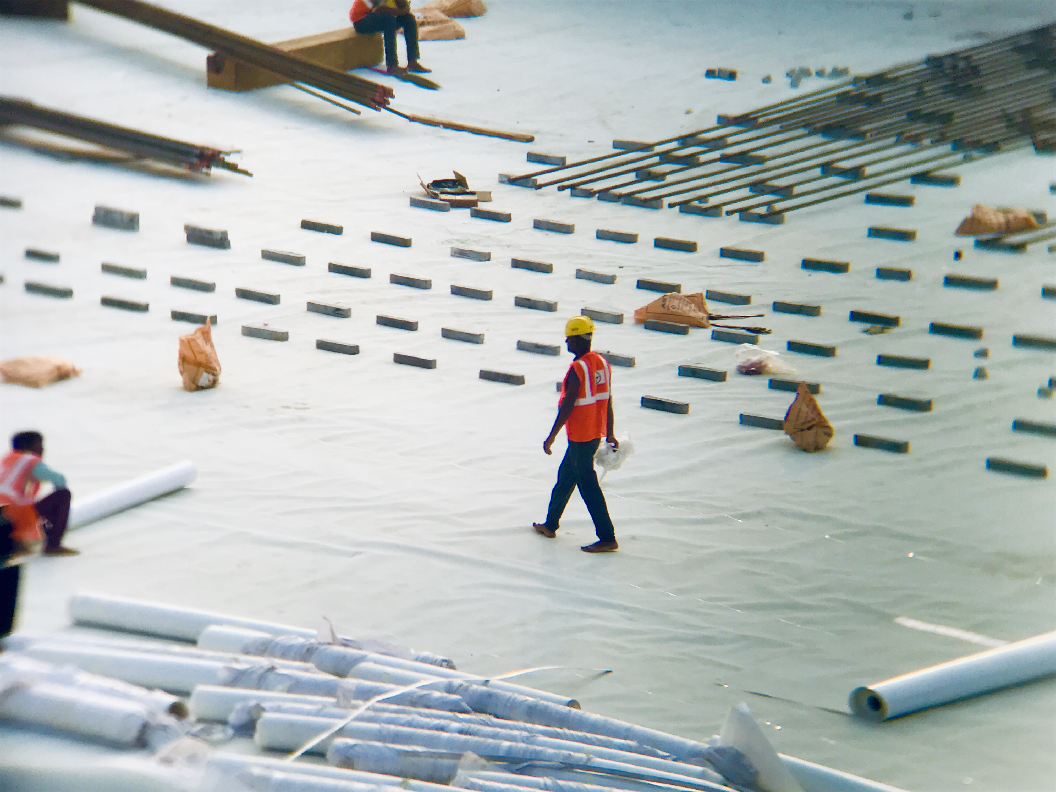 Amaravati is a planned city in Andhra Pradesh which was designed by Architect Norman Foster